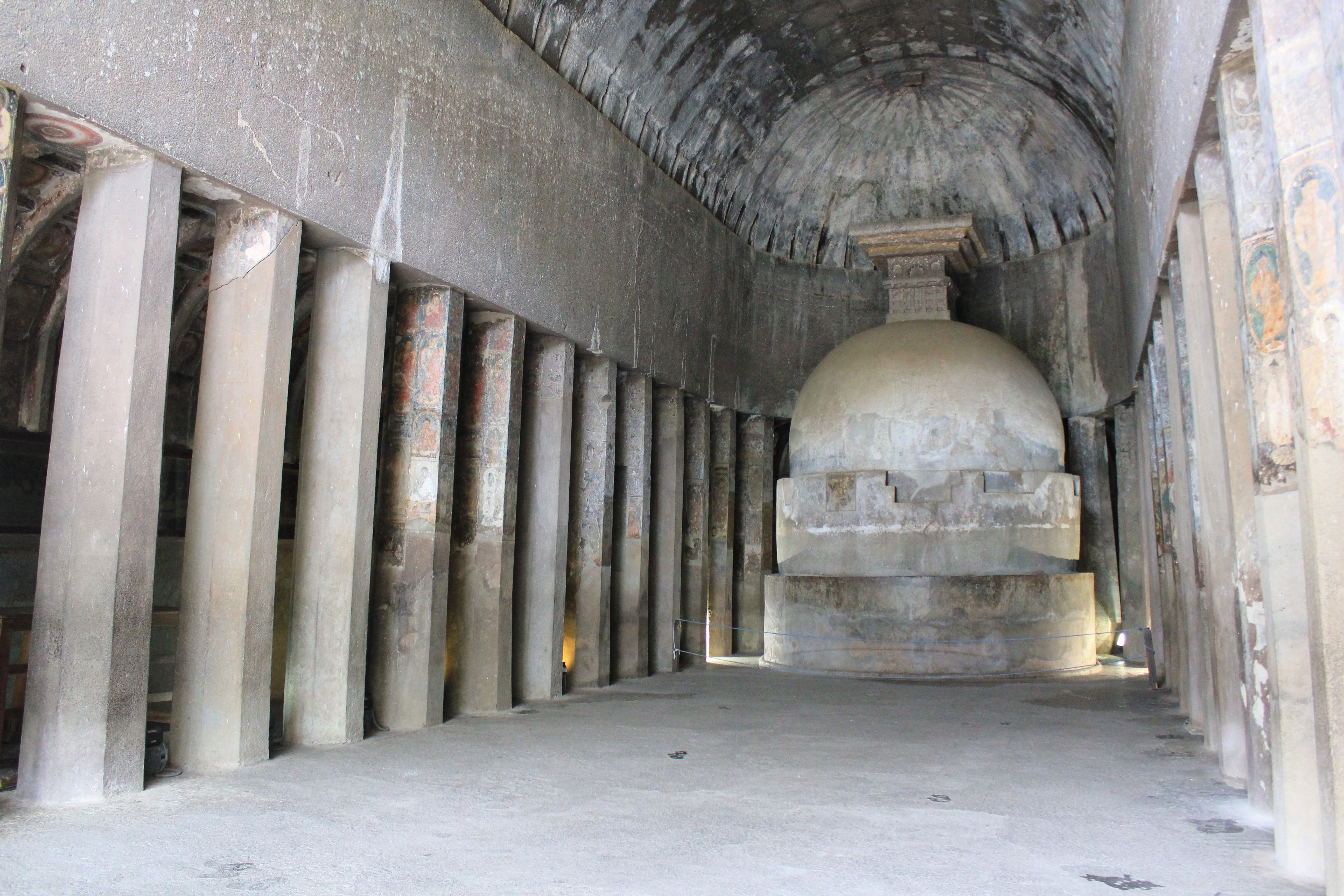 Ajanta Caves